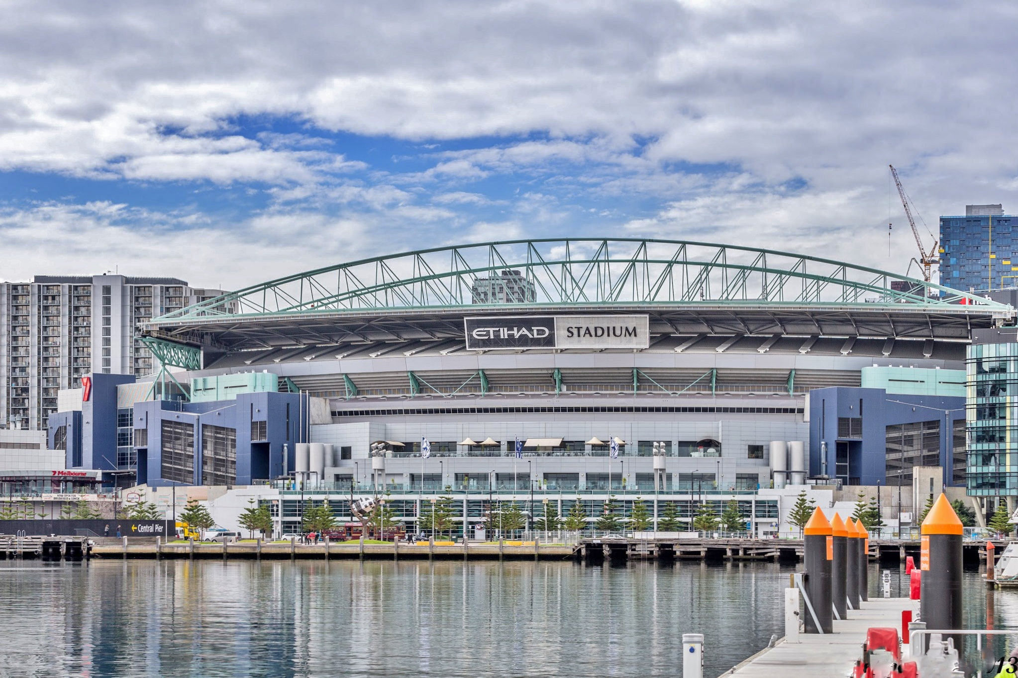 Docklands Stadium, Melbourne, Victoria, Australia